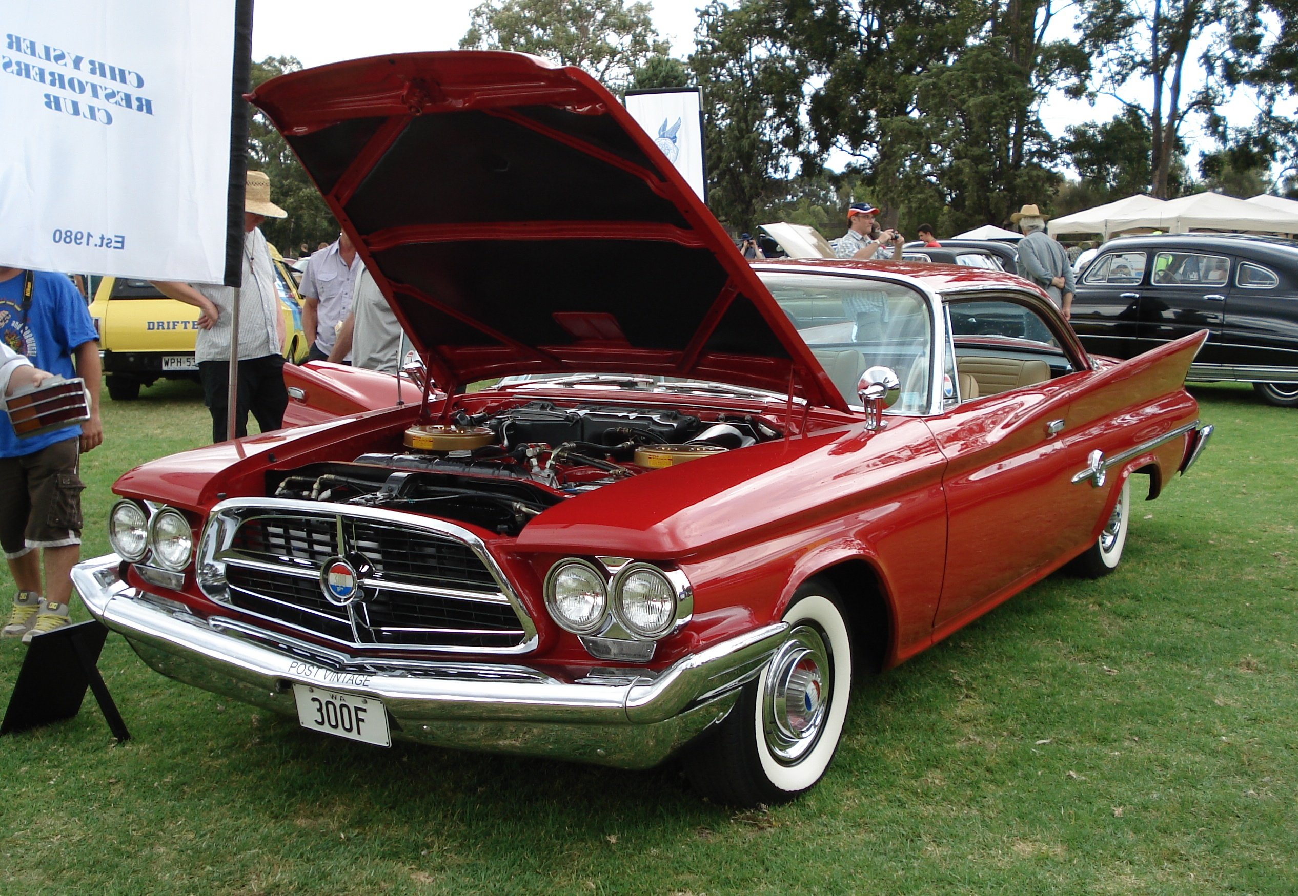 Chrysler 300F of 1960